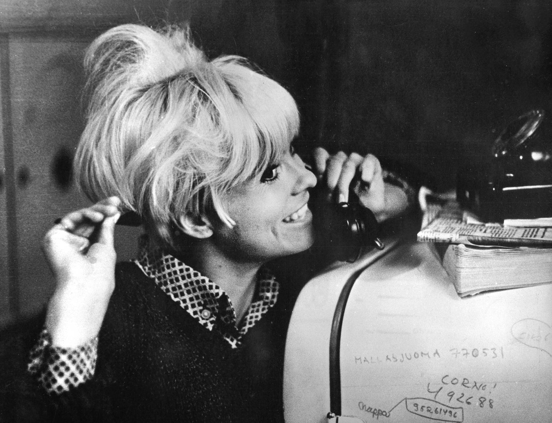 Photograph of the Finnish actress Kirsti Wallasvaara (1942–) in her role in the film Lapualaismorsian.